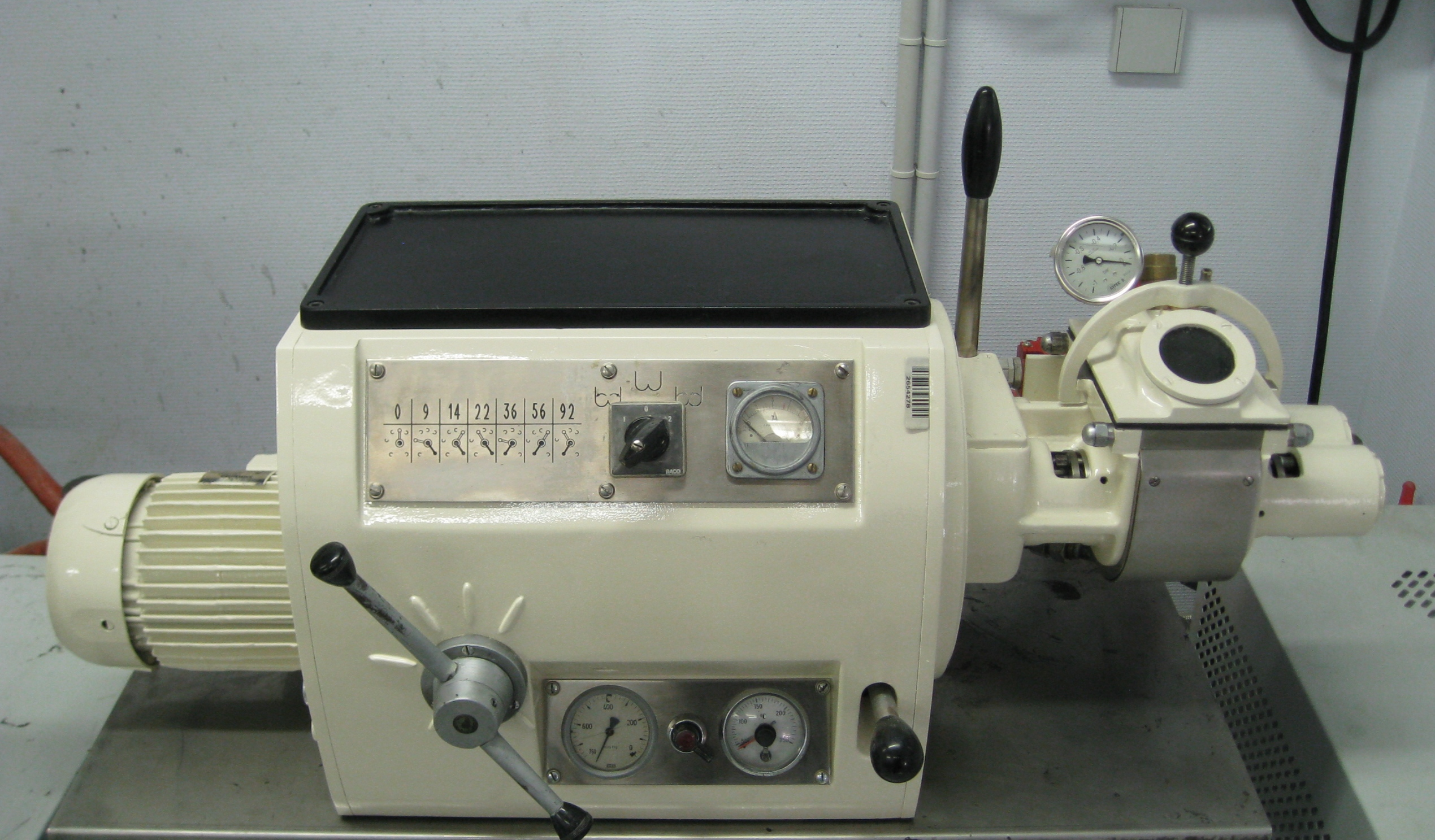 Z blade kneader with a capacity of 1 L used in a laboratory to formulate plastics, plastisols, epoxy sealants, adhesives, etc.